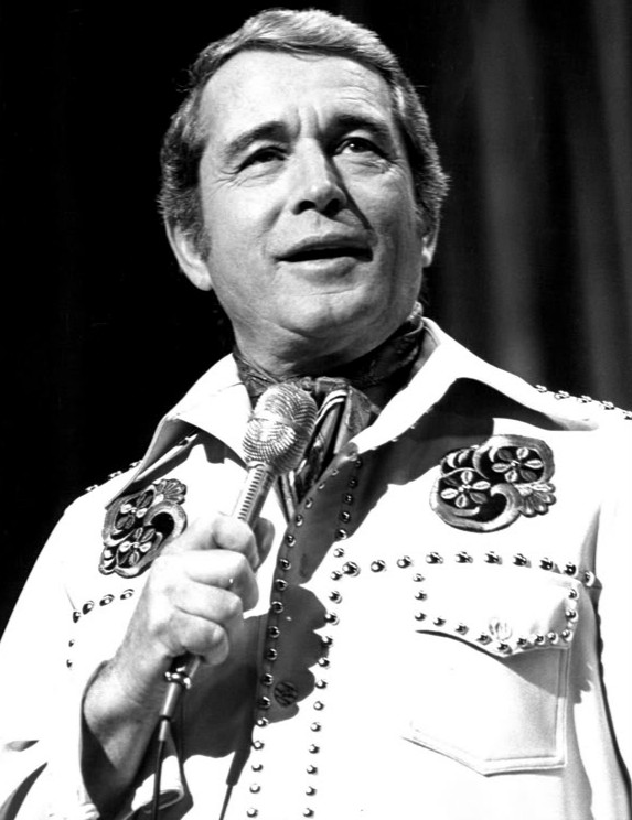 Photo of Perry Como from his television special "Como Country...Perry and His Nashville Friends".